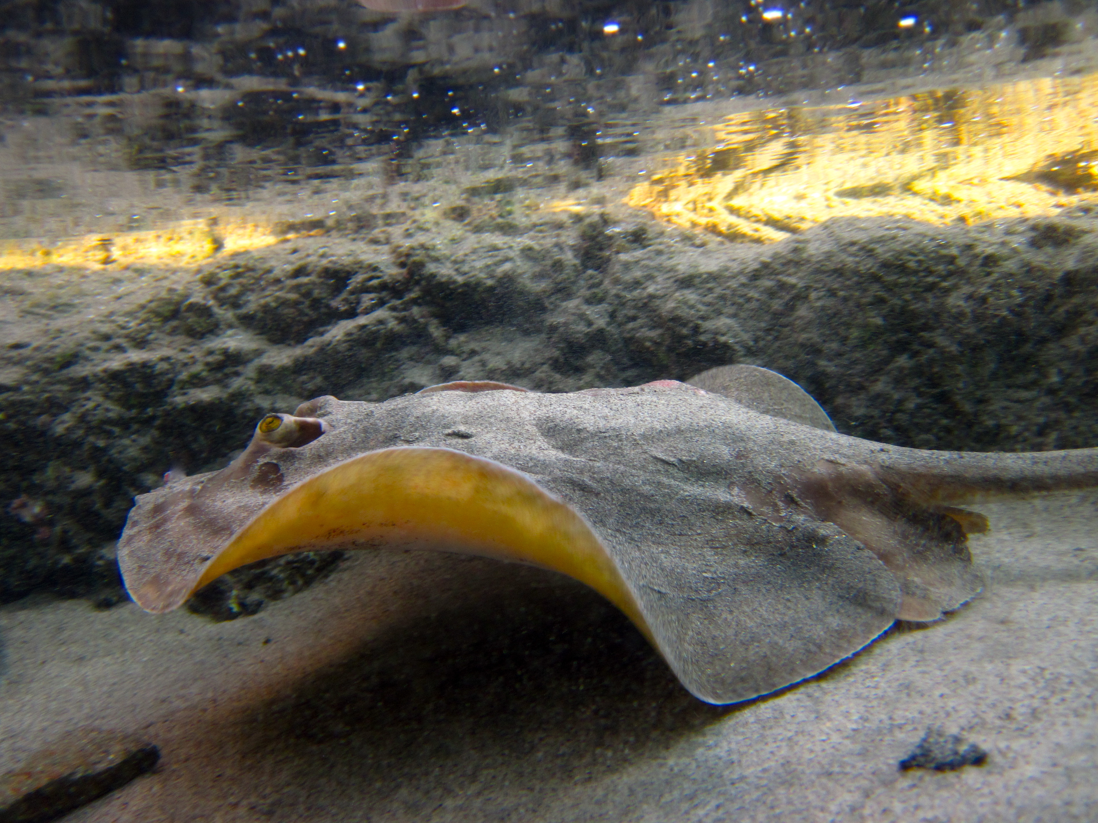 Spot-on-spot round ray (Urobatis concentricus) in a tidal pool, Pescadero on the Baja Peninsula, México.